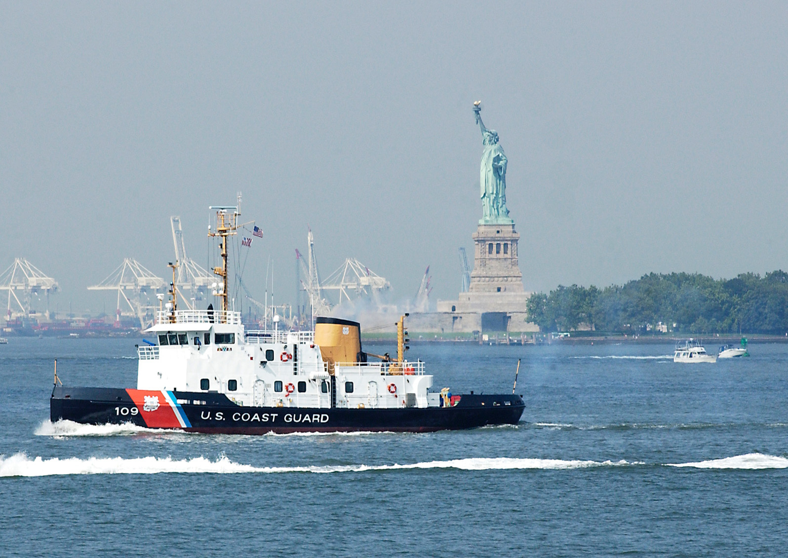 NEW YORK (July 7, 2005) The U.S. Coast Guard Cutter Sturgeon Bay, homeported in Bayonne, NJ, patrols near the Statue of Liberty in New York Harbor July 12, 2005. The Coast Guard has increased patrols in the wake of the London train and bus terorrist attacks July 07, 2005. USCG photo by PO Dan Bender.